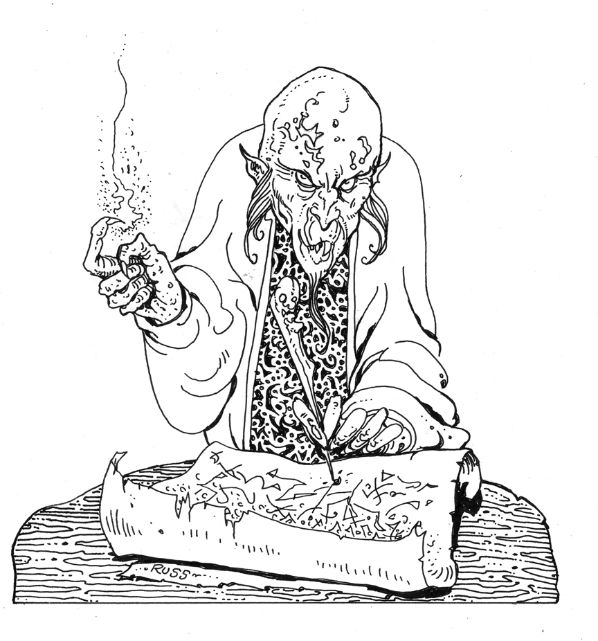 The Reader illustration